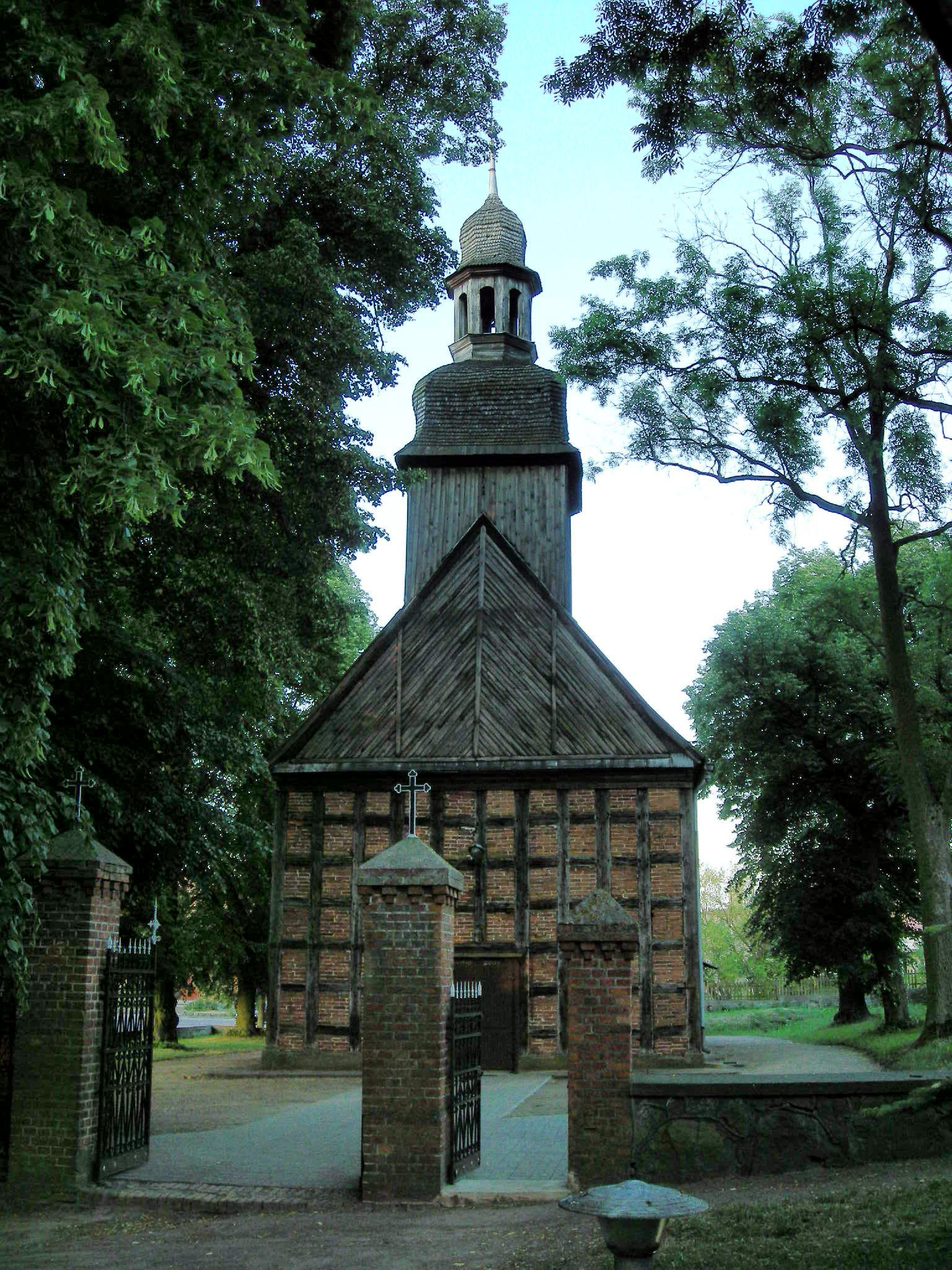 The church in Jaktorowo, Poland.